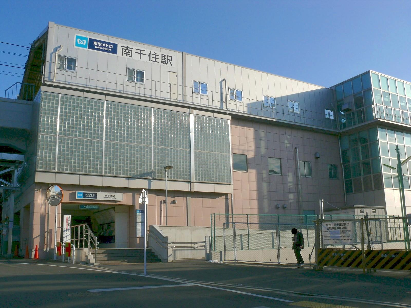 Tokyo Metro Minami-Senju Station in Tokyo, Japan, taken from the public road on the JR station side